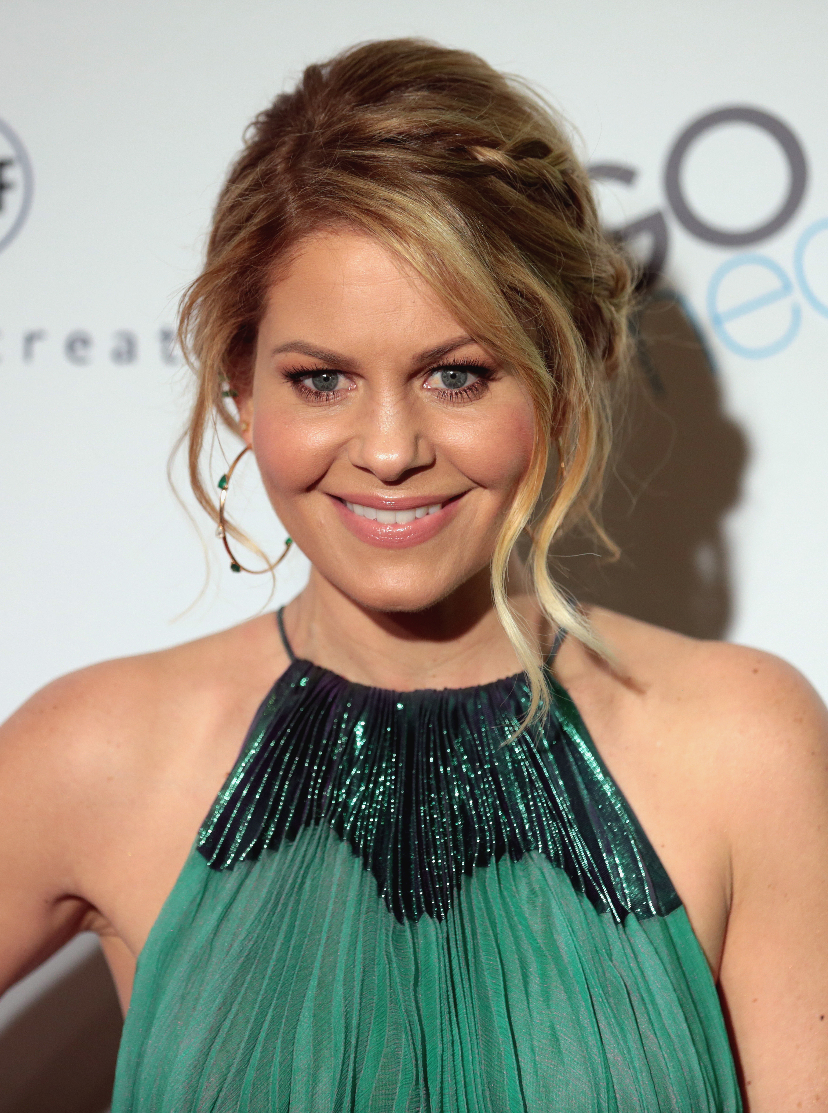 Candace Cameron Bure at Celebrity Fight Night XXIV in Phoenix, Arizona.